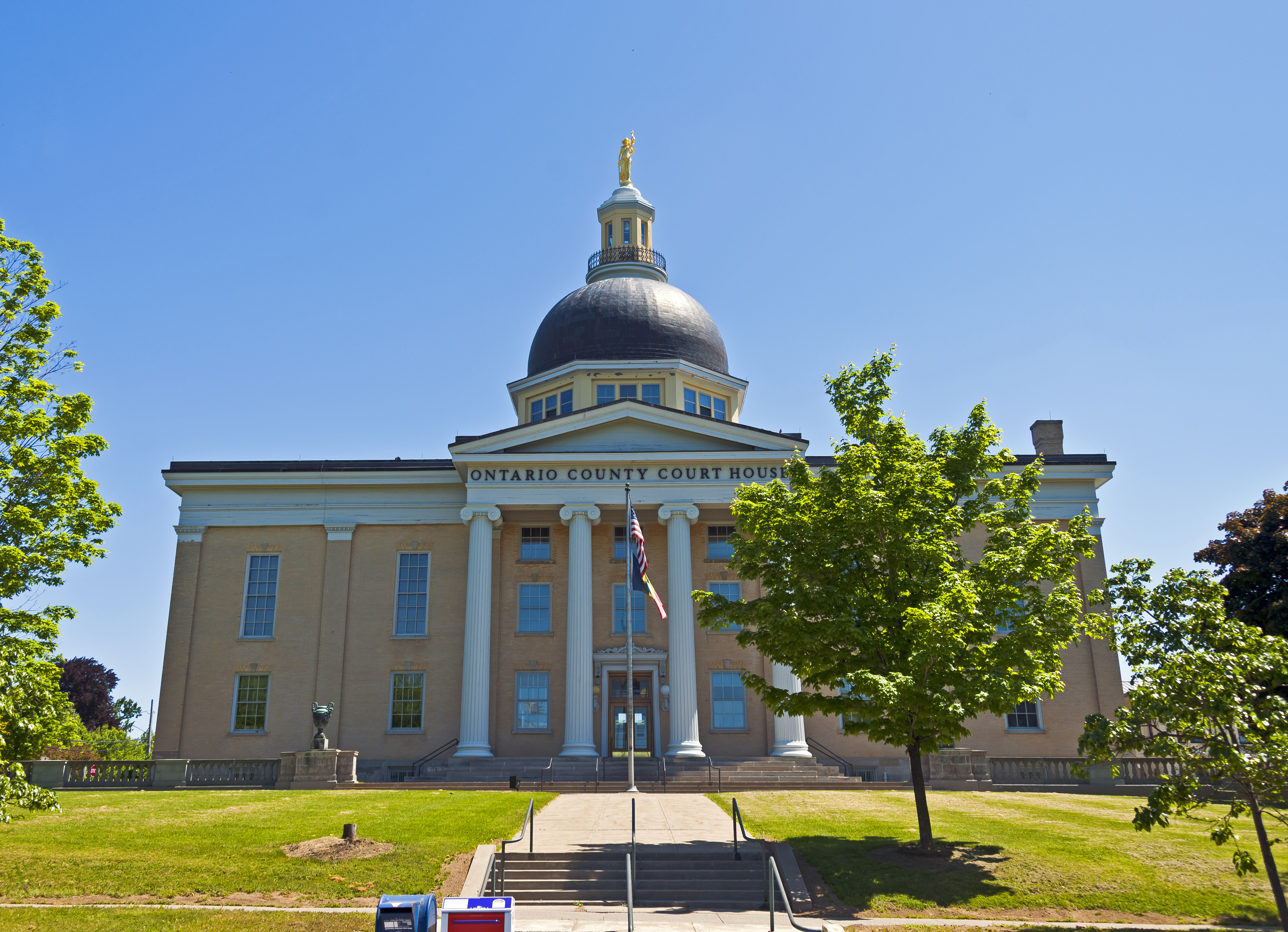 The Ontario County courthouse, on Main Street (NY 21/332) in Canandaigua, NY, USA